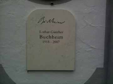 The gravestone of Lothar-Günther Buchheim in Bernried on Lake Starnberg